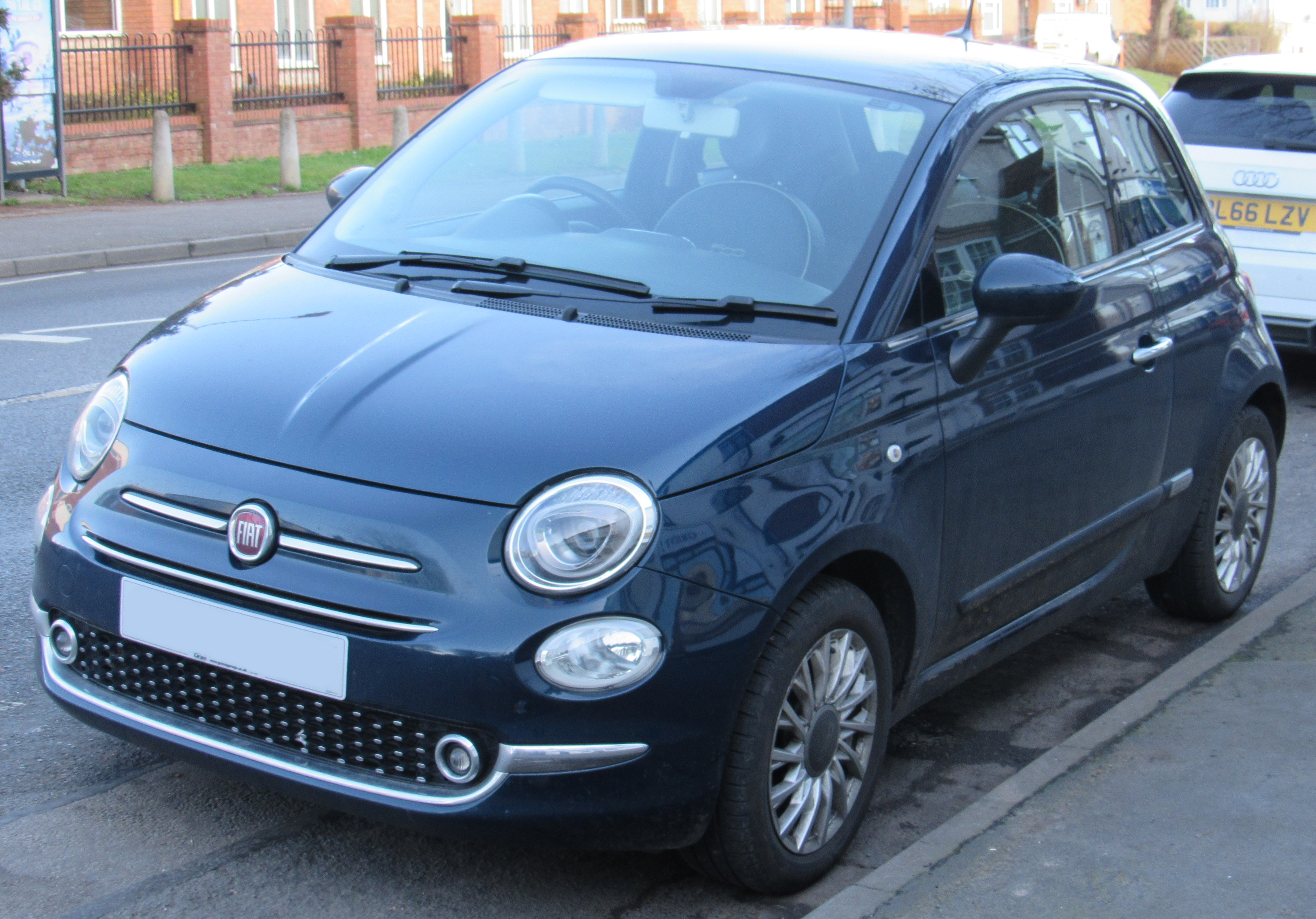 2016 Fiat 500 Lounge 1.2 Front Taken in Warwick